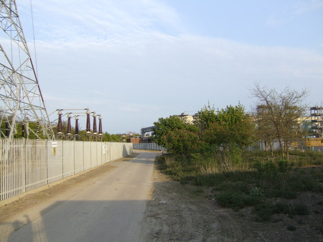 Sellindge Converter Station Put simply, this facility takes electricity from the cross-channel cable from France, and converts it into a form usable in the National Grid. If you want more mind-blowingly complicated information look at; HVDC